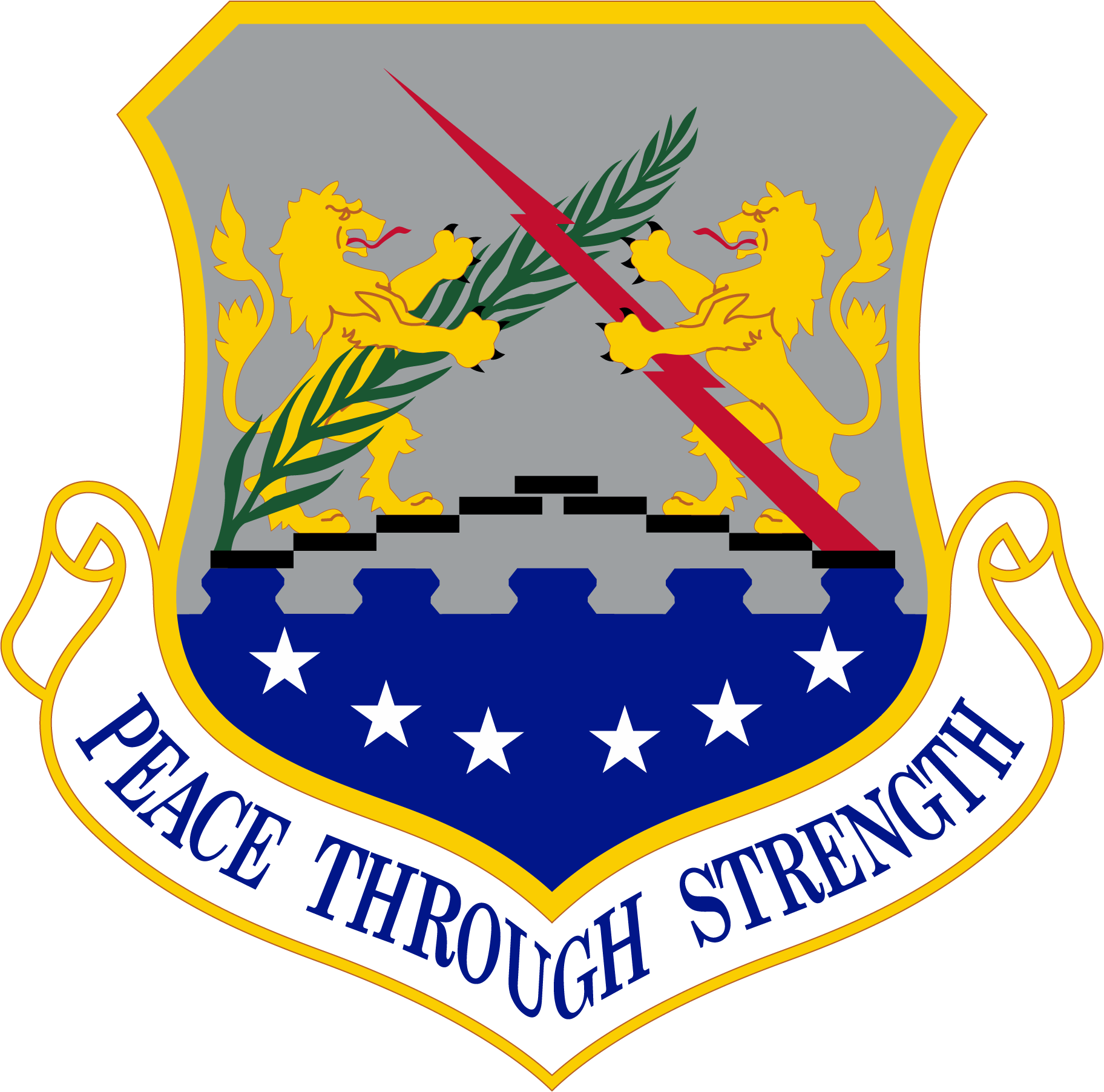 Emblem of the 100th Air Refueling Wing, a wing of the United States Air Force. Approved on 22 November 1957 (K 3078); modified on 20 June 1999.